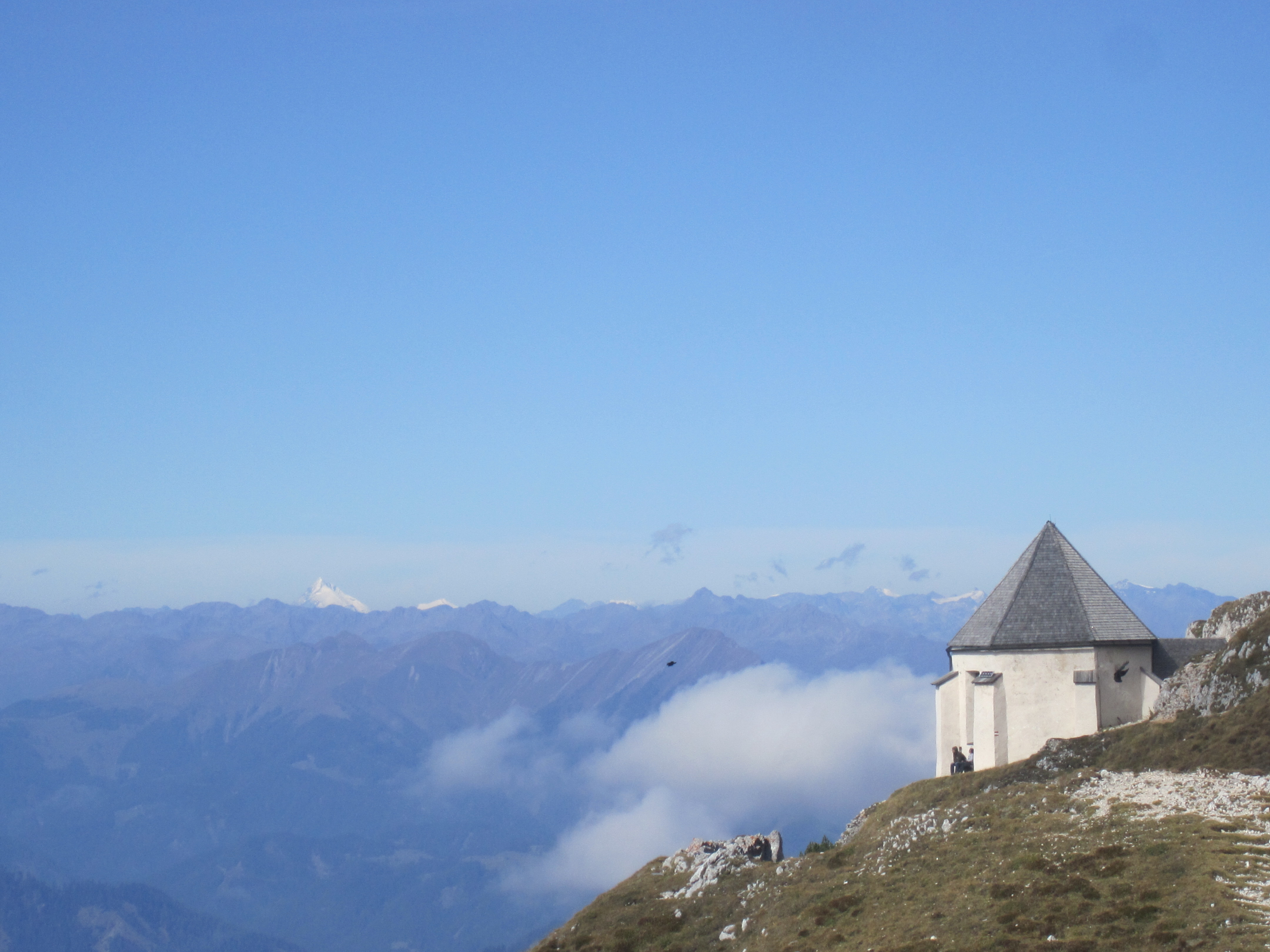 Slovenian Church on Dobrač/Dobratsch mountain, view to the west